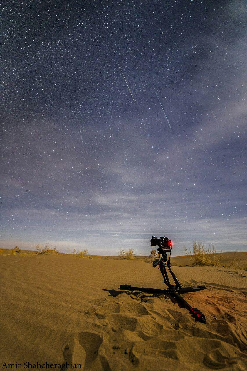 This image shows geminid meteor shower in central desert of iran